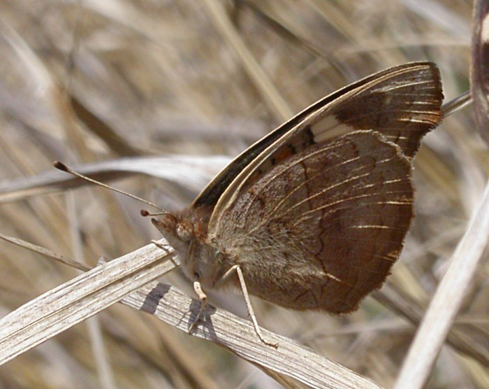 Common Buckeye (Junonia coenia)